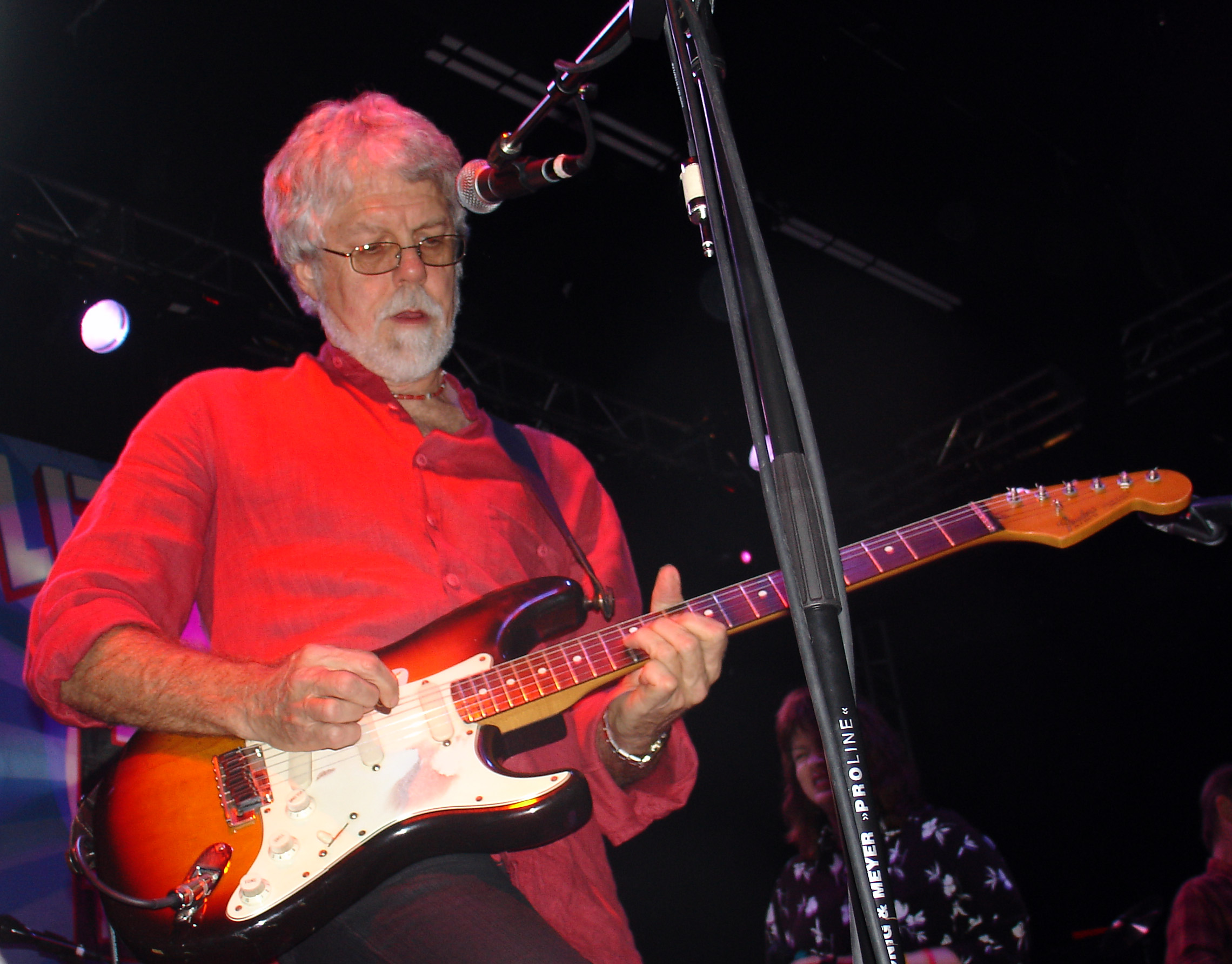 Fred Tackett, a native of the U.S. state of Arkansas, is a guitarist, mandolinist and trumpeter with the band Little Feat.